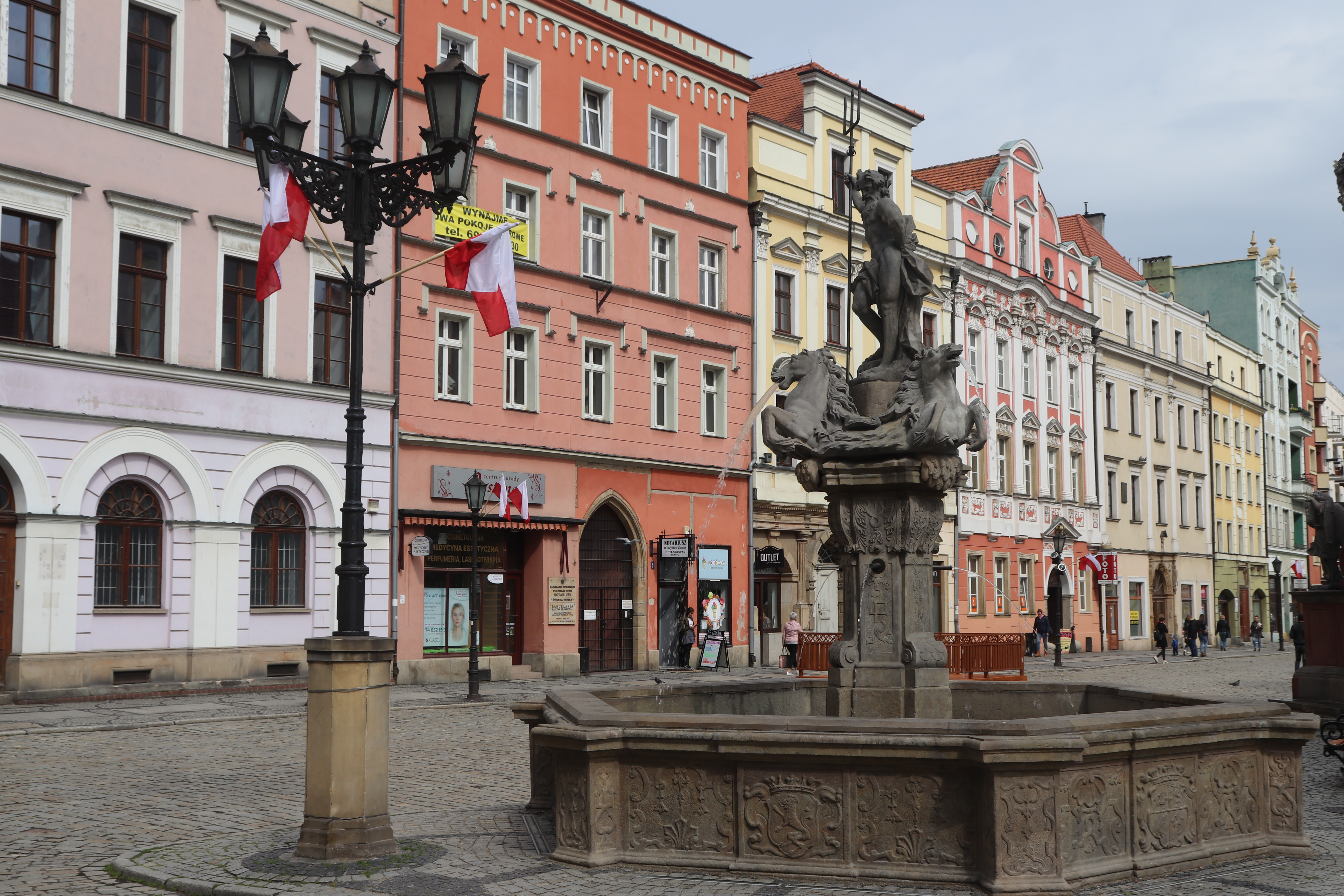 Świdnica - fountain in the Market Square